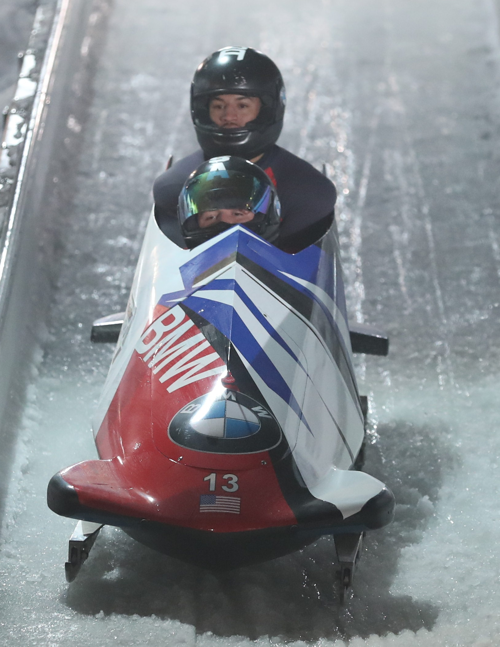 2-man Bobsleigh Men's World Cup race at the 2018/19 Bobsleigh World Cup in Altenberg